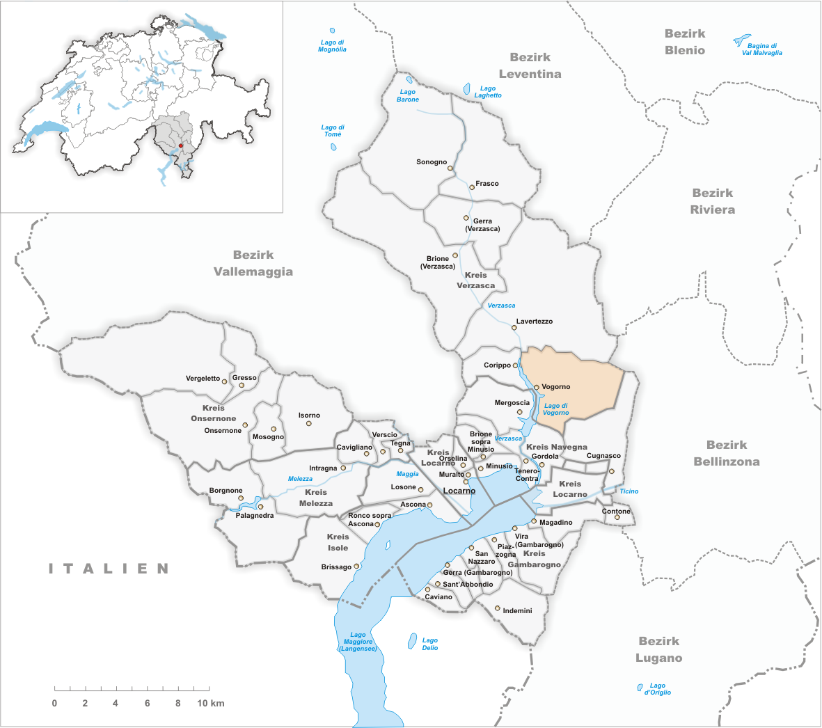 Municipality Vogorno